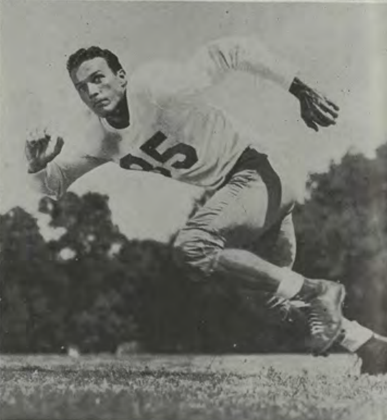 Lew Holder